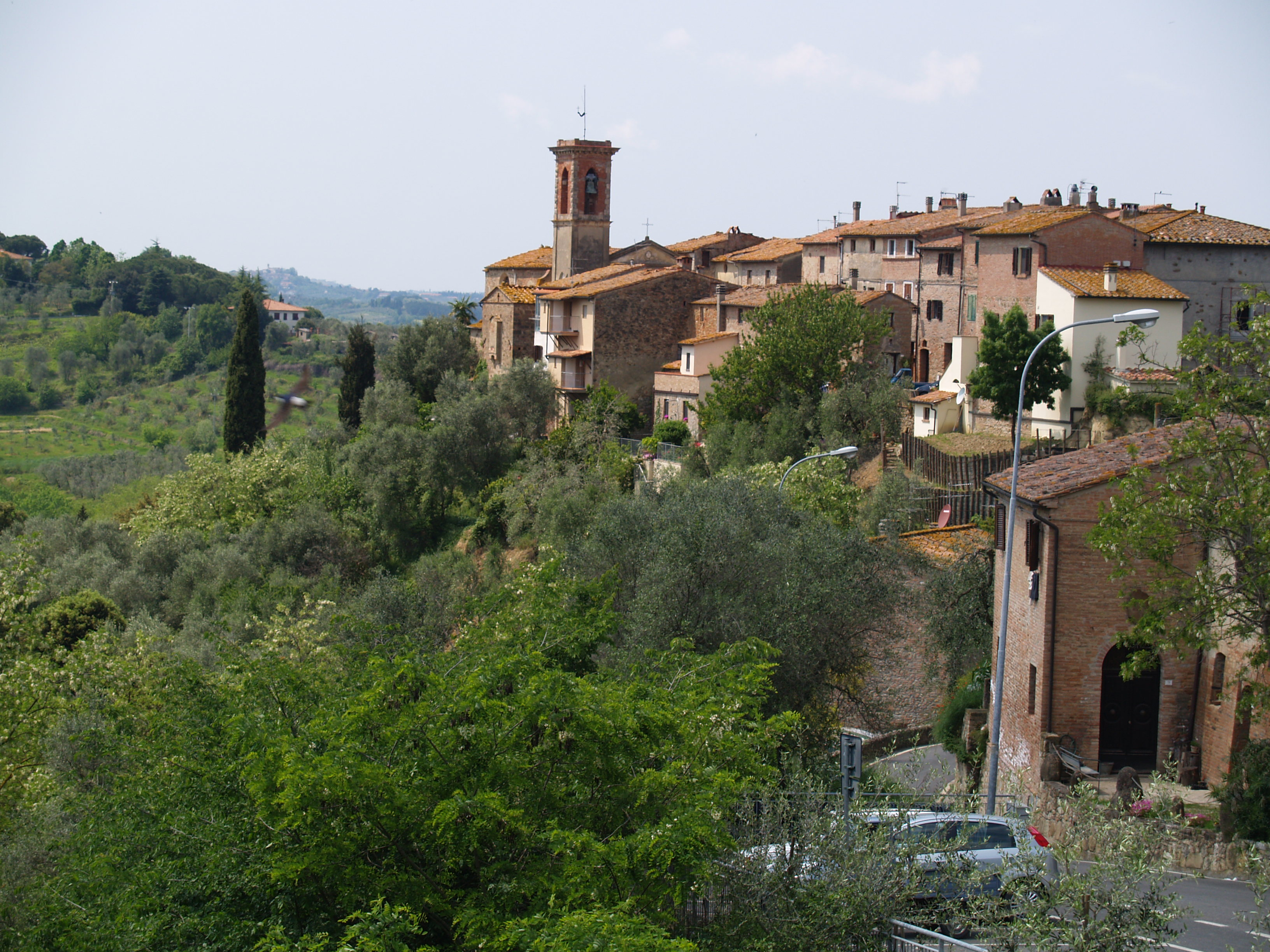 view of Montecchio di Peccioli, Pisa